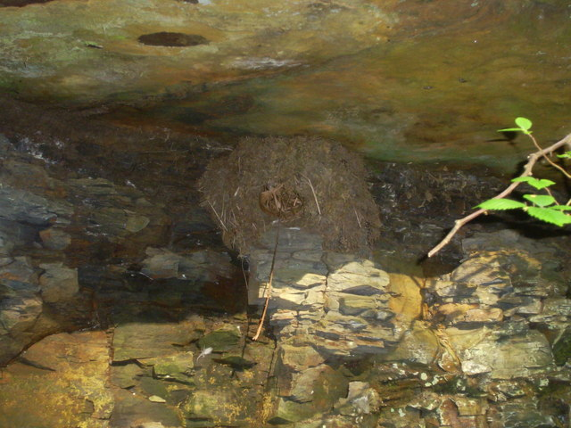 Dipper nest,Wharnley burn